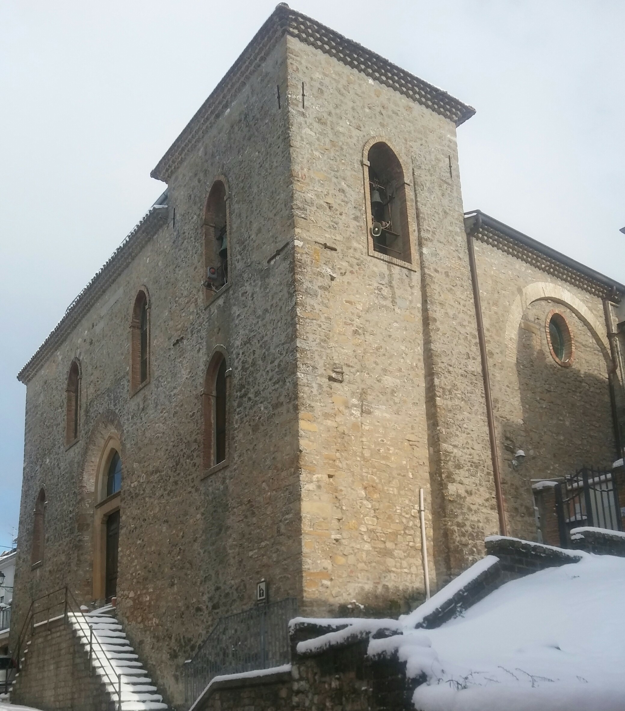 The church of Saint Peter at La Guardia quarter in Ariano Irpino, Italy